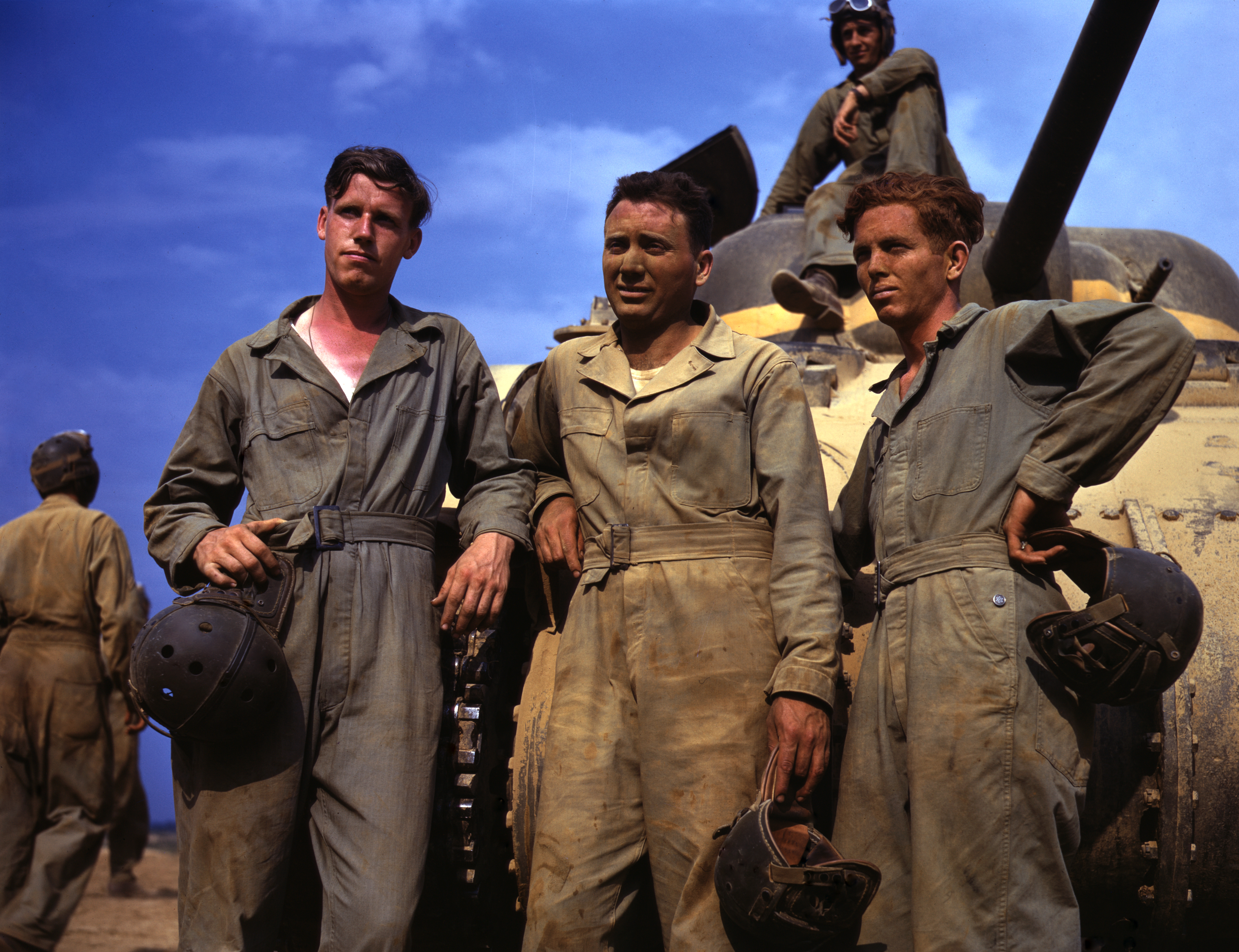 Tank crew standing in front of M4 Sherman tank; Fort Knox, Kentucky